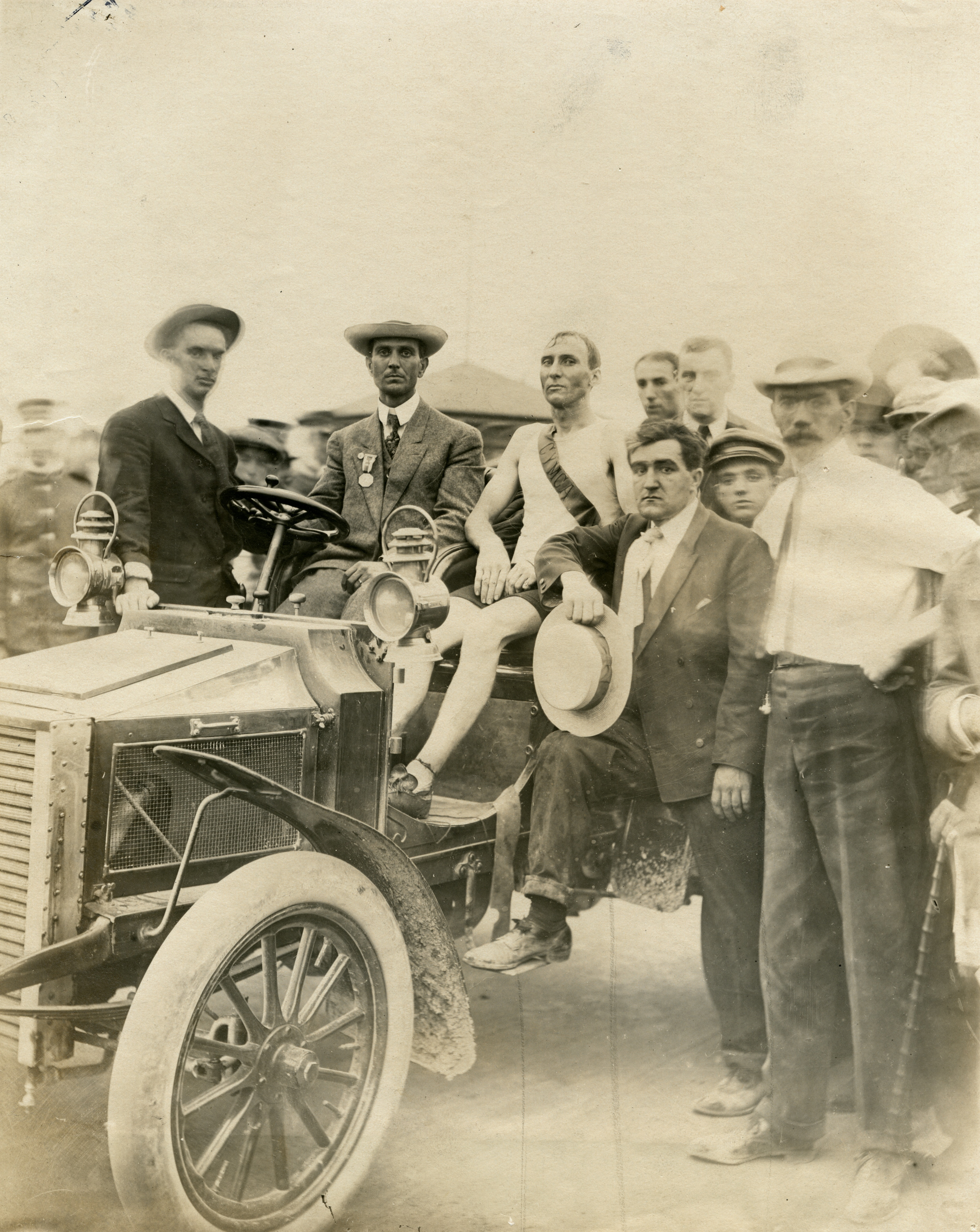 Thomas Hicks, winner of Marathon Race, sitting in an open car surrounded by race officials and other men.Title: 1904 Olympics: Thomas J. Hicks, Boston, winner of the Marathon Race resting in a car after the finish.